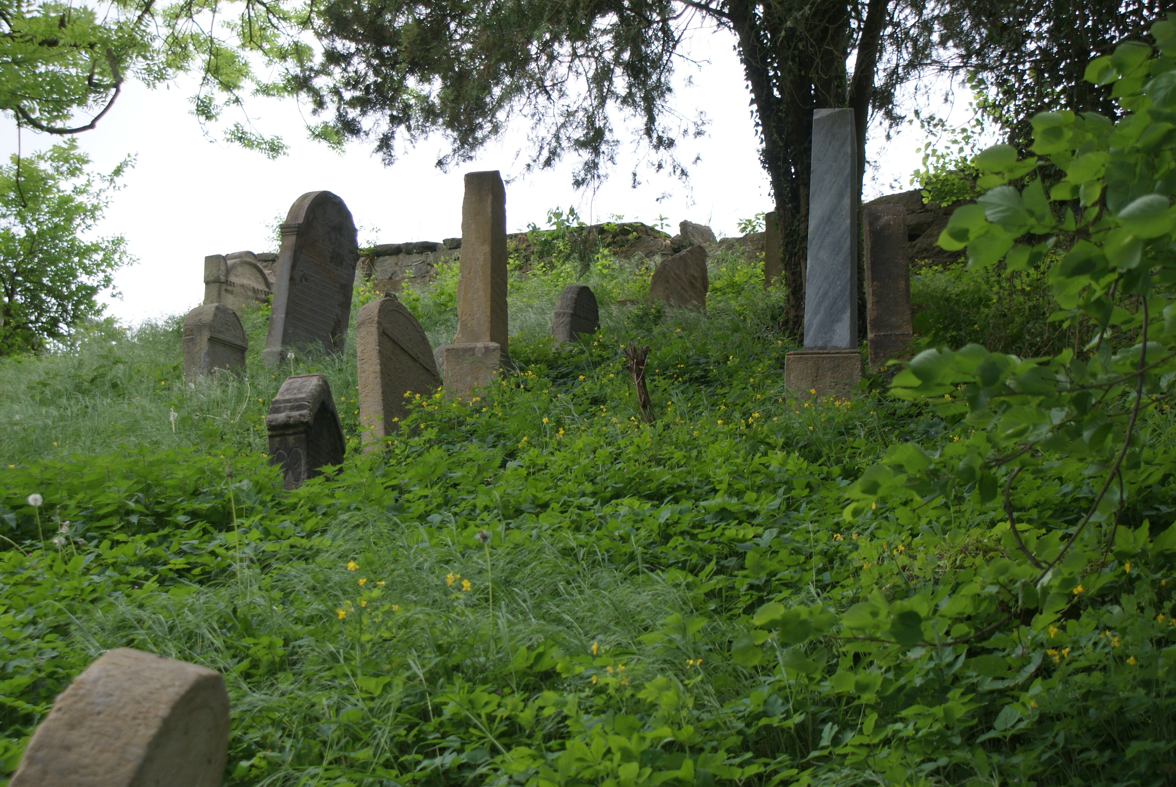 Jewish cemetery in Zámostí (Písková Lhota), Mladá Boleslav district, Czech Republic.